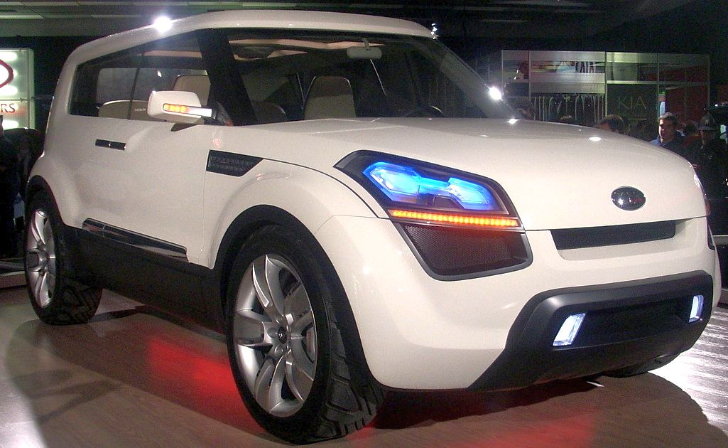 Kia Soul Concept photographed at the Montreal Auto Show.